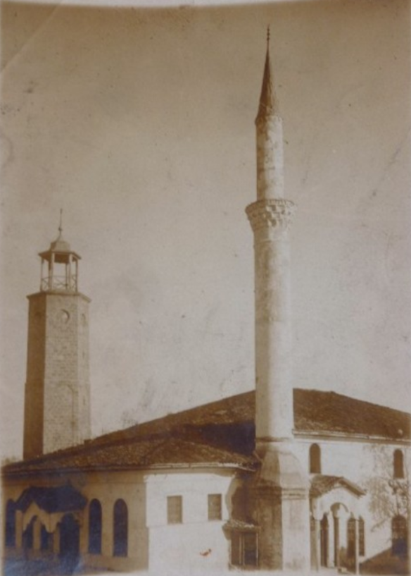 Hünkâr Mosque in Vodena in 1910, present day Edessa